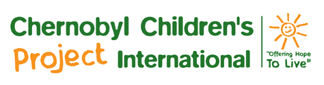 Chernobyl Children's Project International